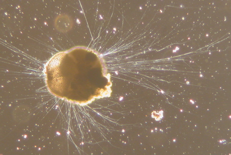 Live Ammonia tepida benthic foraminiferan collected from San Francisco Bay. Phase-contrast photomicrograph by Scott Fay, UC Berkeley, 2005.